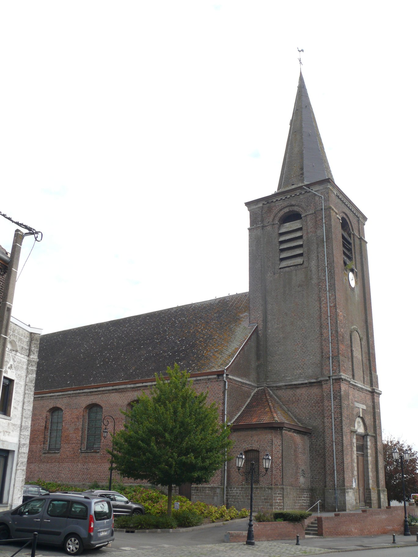 Saint-Brice's church of Rumegies (Nord, France).